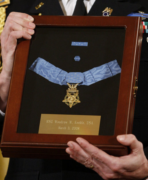 A White House military aide holds the Medal of Honor presented posthumously to U.S. Army Master Sgt. Woodrow Wilson Keeble by President George W. Bush, Monday, March 3, 2008 in the East Room of the White House. Master Sgt. Keeble, the first full-blooded Sioux Indian to receive the Medal of Honor, was recognized for his gallantry above and beyond the call of duty during military action in the Korean War.